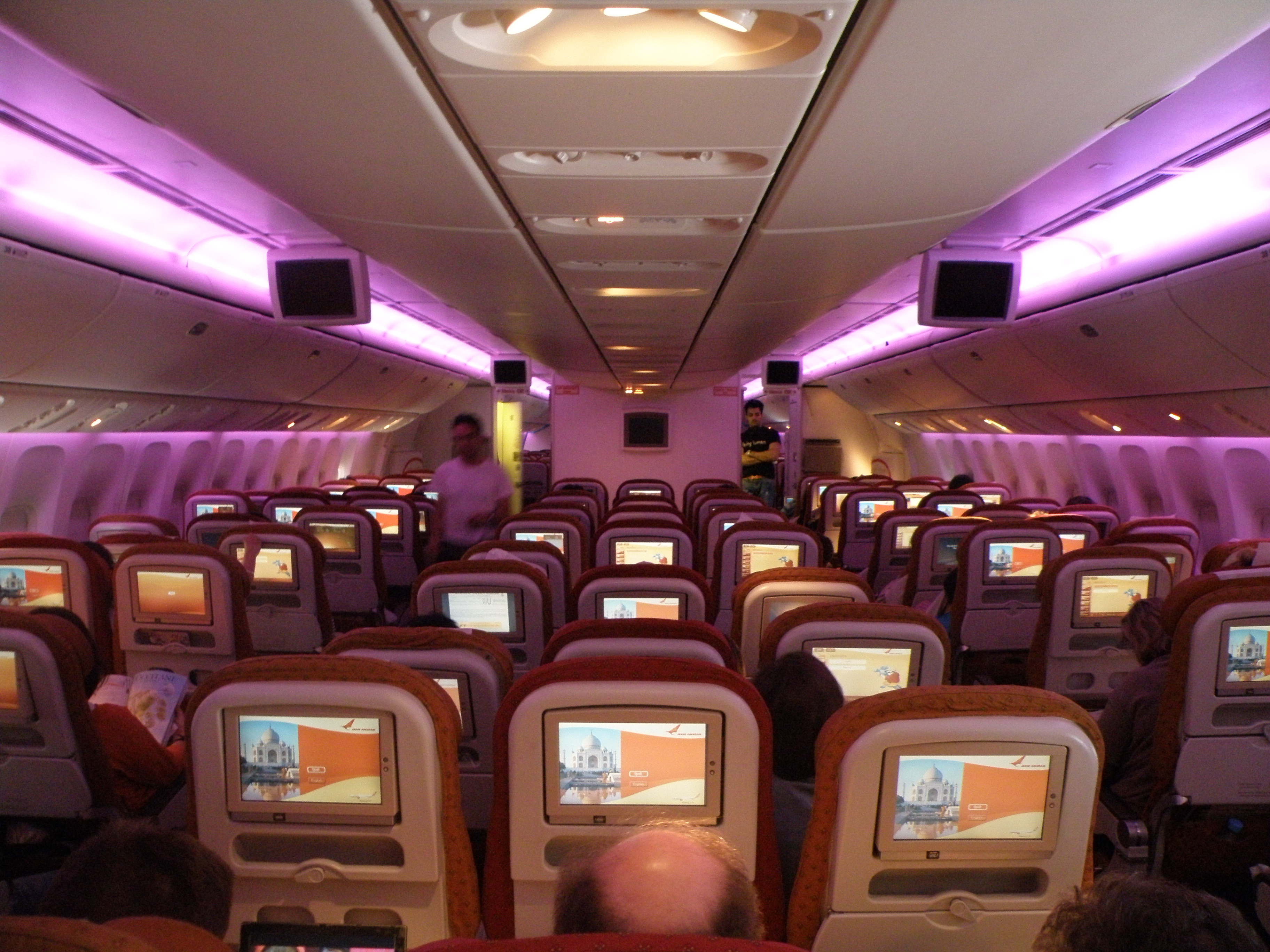 Economy class on Air India Boeing 777, on DEL-CDG sector.